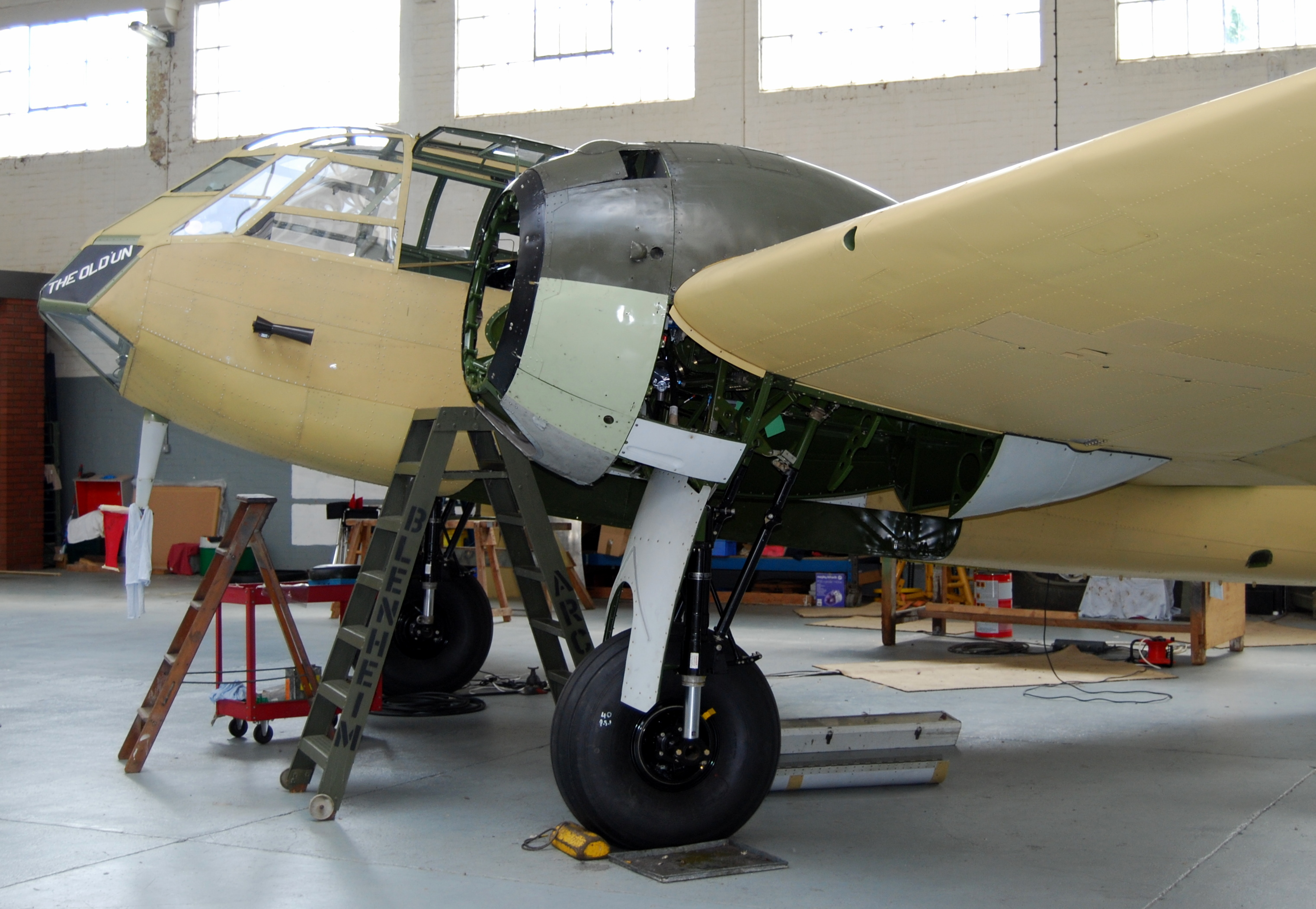 Photo ref; DSC0532-2012